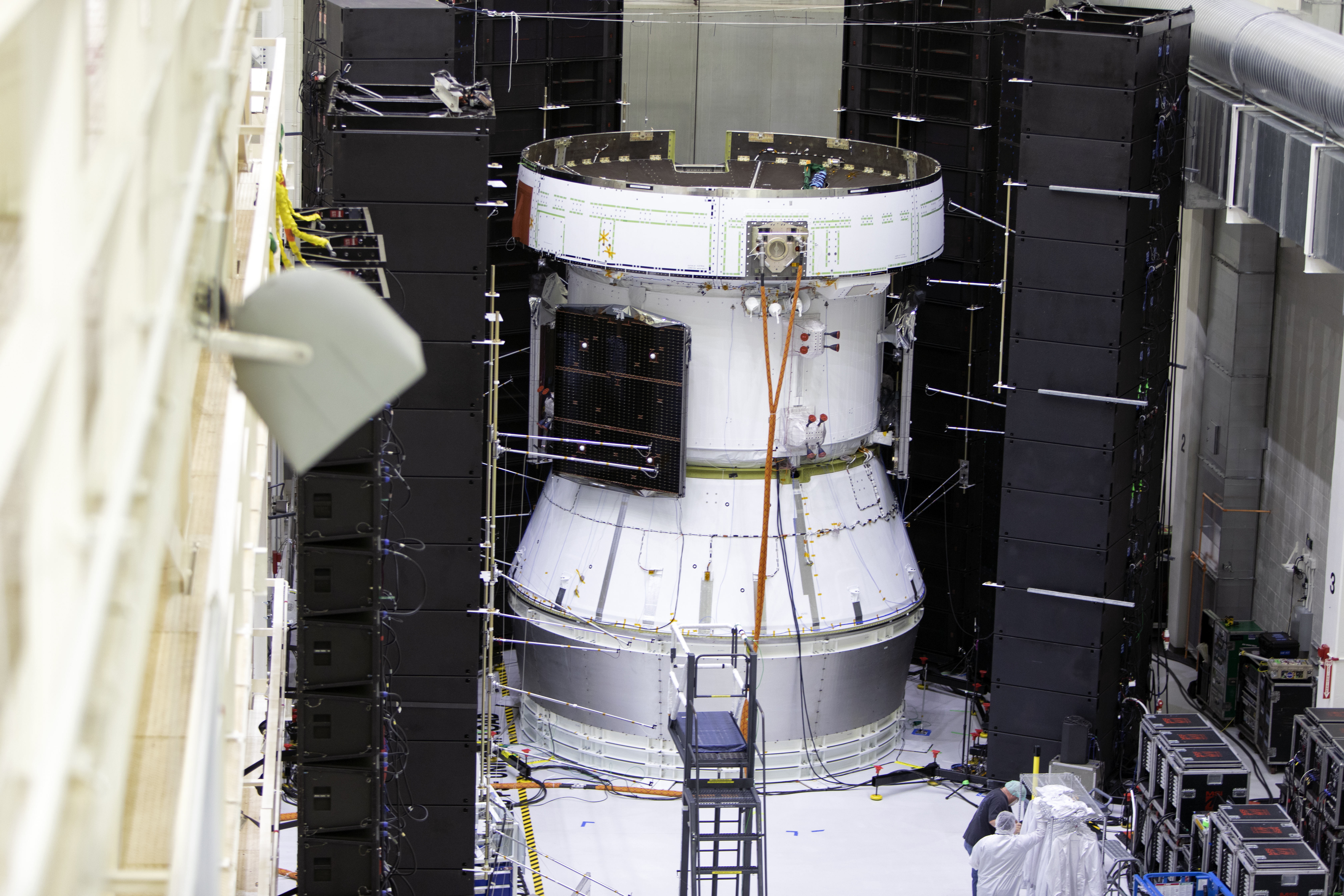 Orion’s service module for NASA’s Artemis 1 mission was moved from a test stand to a test cell inside the Operations and Checkout Building at NASA’s Kennedy Space Center in Florida on May 22, 2019. With microphones, strain gauges and accelerometers attached, the service module will undergo acoustic testing to check for flaws, the latest step in preparing for the agency’s first uncrewed flight test of Orion on the Space Launch System (SLS) rocket. Artemis 1 will be the first mission launching Orion on the SLS rocket from Kennedy’s Launch Pad 39B. The mission will take Orion thousands of miles past the Moon on an approximately three-week test flight. Orion will return to Earth and splashdown in the Pacific Ocean off the coast of California, where it will be retrieved and returned to Kennedy.